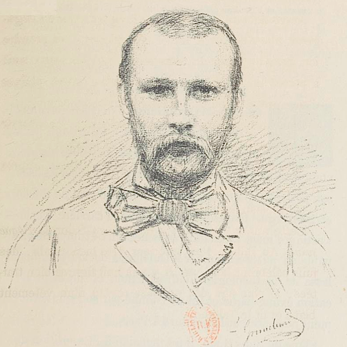 Selfportrait of Johannes Grimelund, sketch